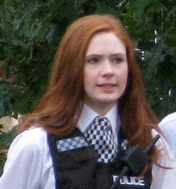 Amy Pond, Doctor Who